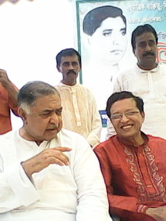 dr kamal hossain with mainuddin khondker, golam rabbani (kansat) & ohiduzzaman palash